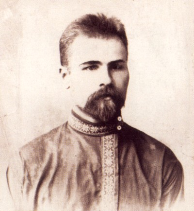 Russian bolshevik revolutionary Vasilij Andrejevitsh Shelgunov (1867-1939). Photograph taken in the 1890's.